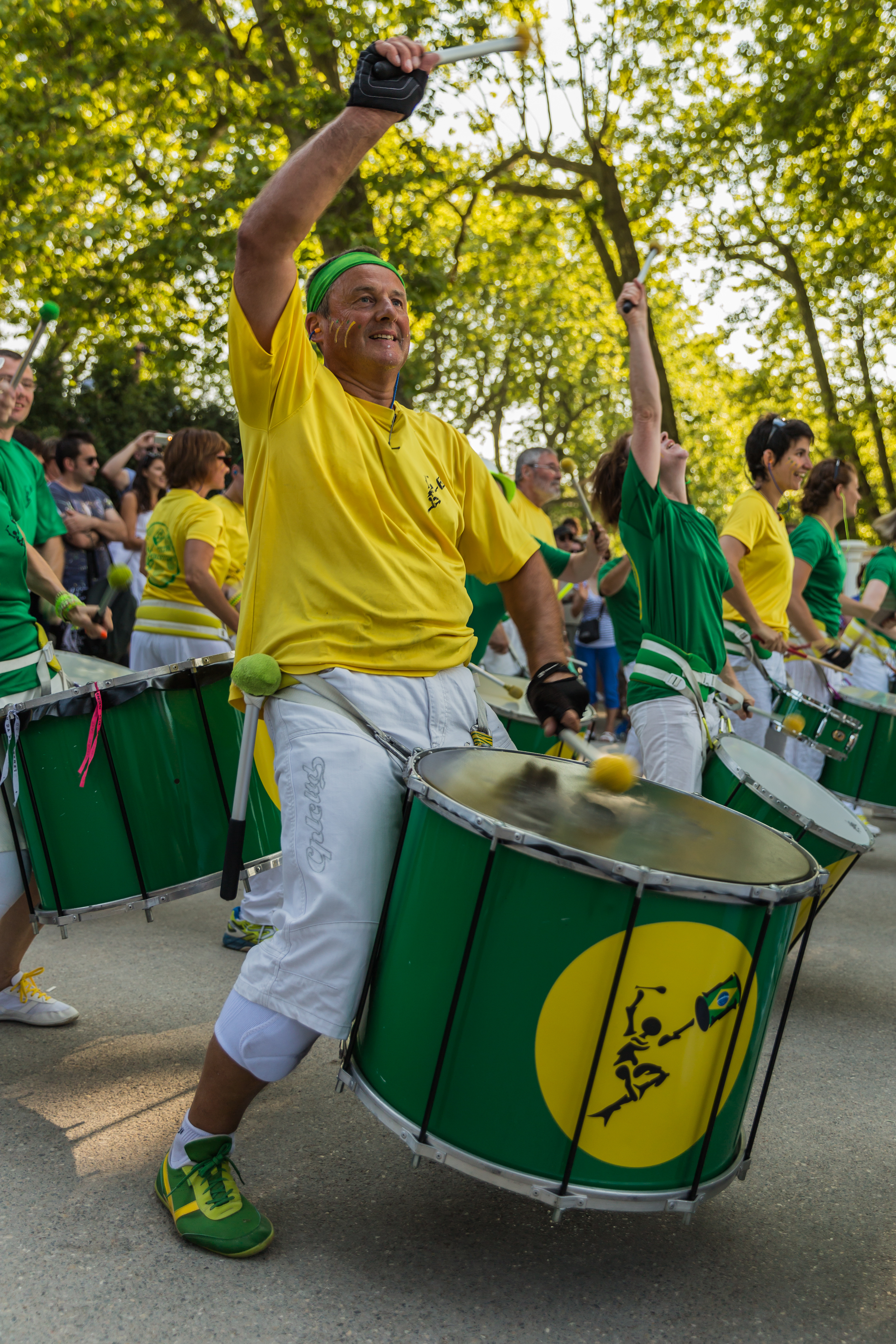 Group Tribal Percussion marching in Annecy (France) playing Brazilian percussion: the Batucada. Website